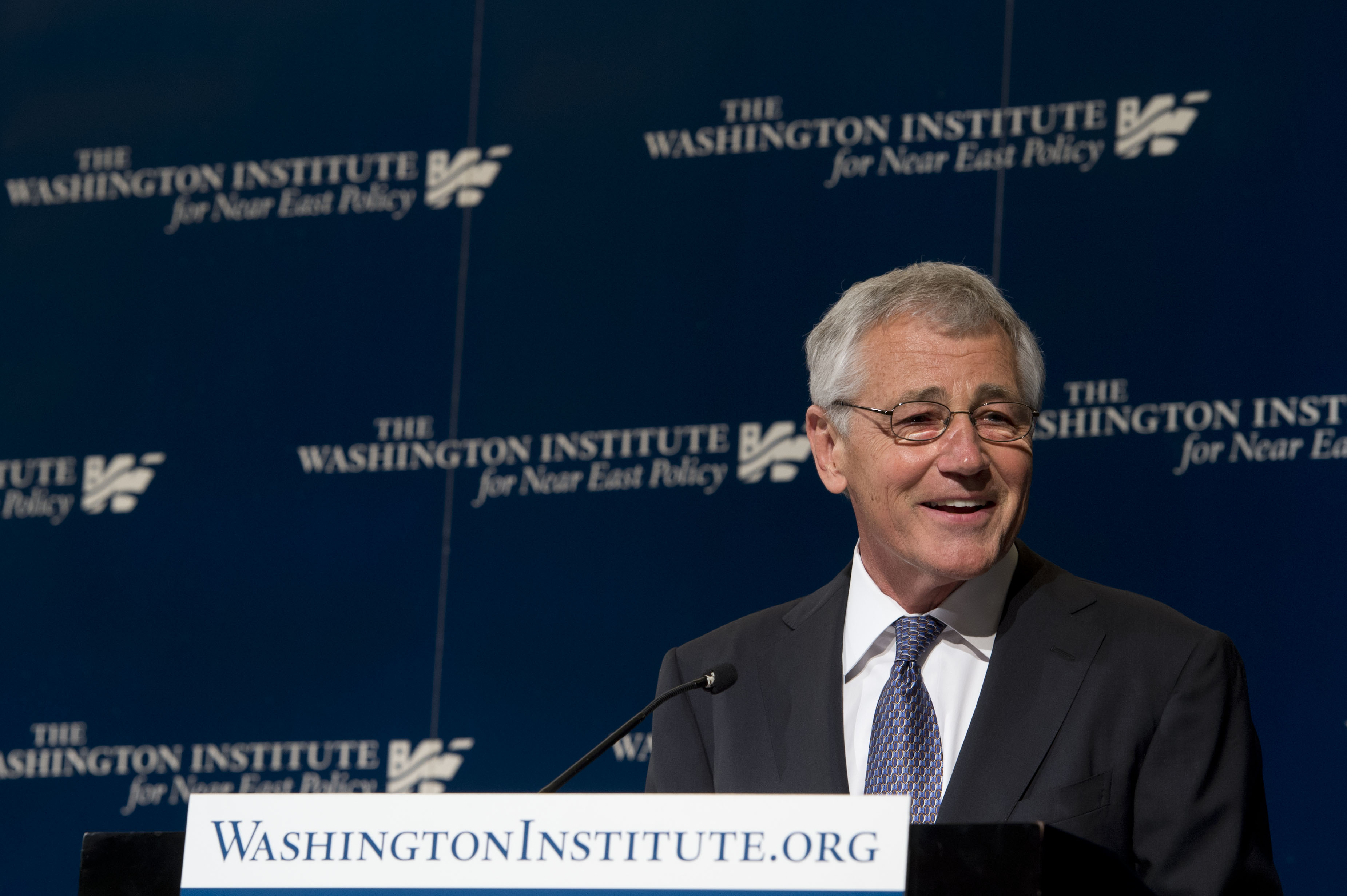 Secretary of Defense Chuck Hagel delivers remarks during the Washington Institute for Near East Policy's 2013 Soref Symposium in Washington, D.C., May 9, 2013. Hagel discussed U.S. defense policy in the Middle East and spoke of his recent trip to the region.